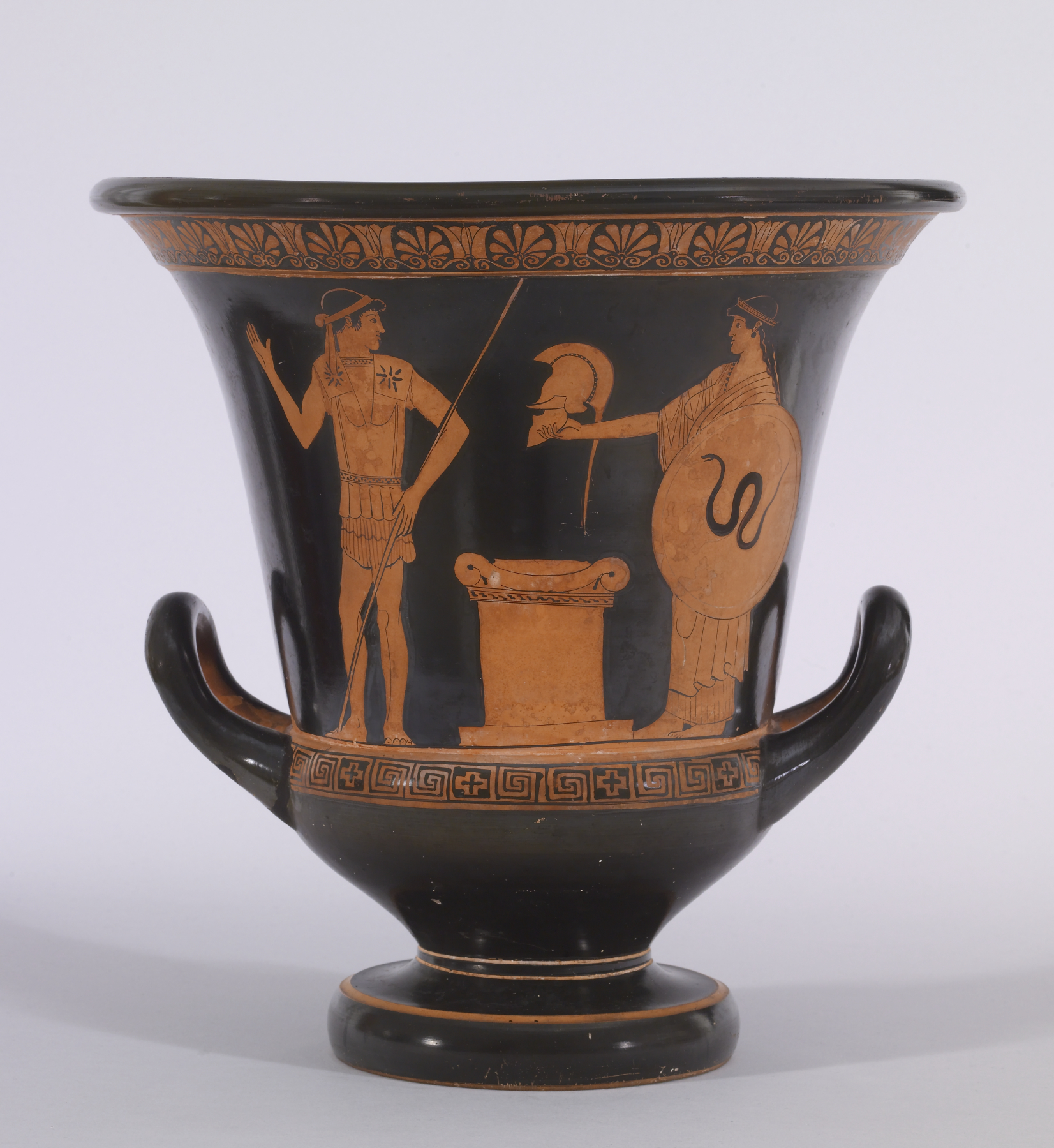 The scene on this "krater" depicts another milestone in the life of a young man. At the culmination of years of training, a warrior stands beside the family altar preparing to leave for war. He wears a short tunic under a "cuirass" (breastplate) and holds his spear in his left hand. A young woman on the right readies his shield and stretches out her hand to pass his helmet across the altar. A "krater" is a large, wide-mouth vessel used for mixing water and wine; if the handles are in the low position seen here, it is called a "calyx krater."